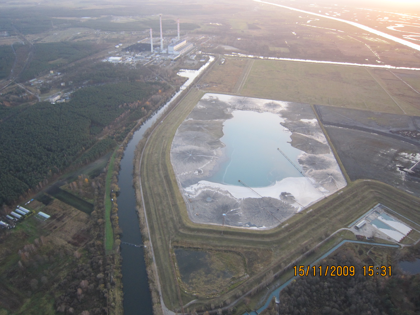 PGE Dolna Odra Power Plant, Poland